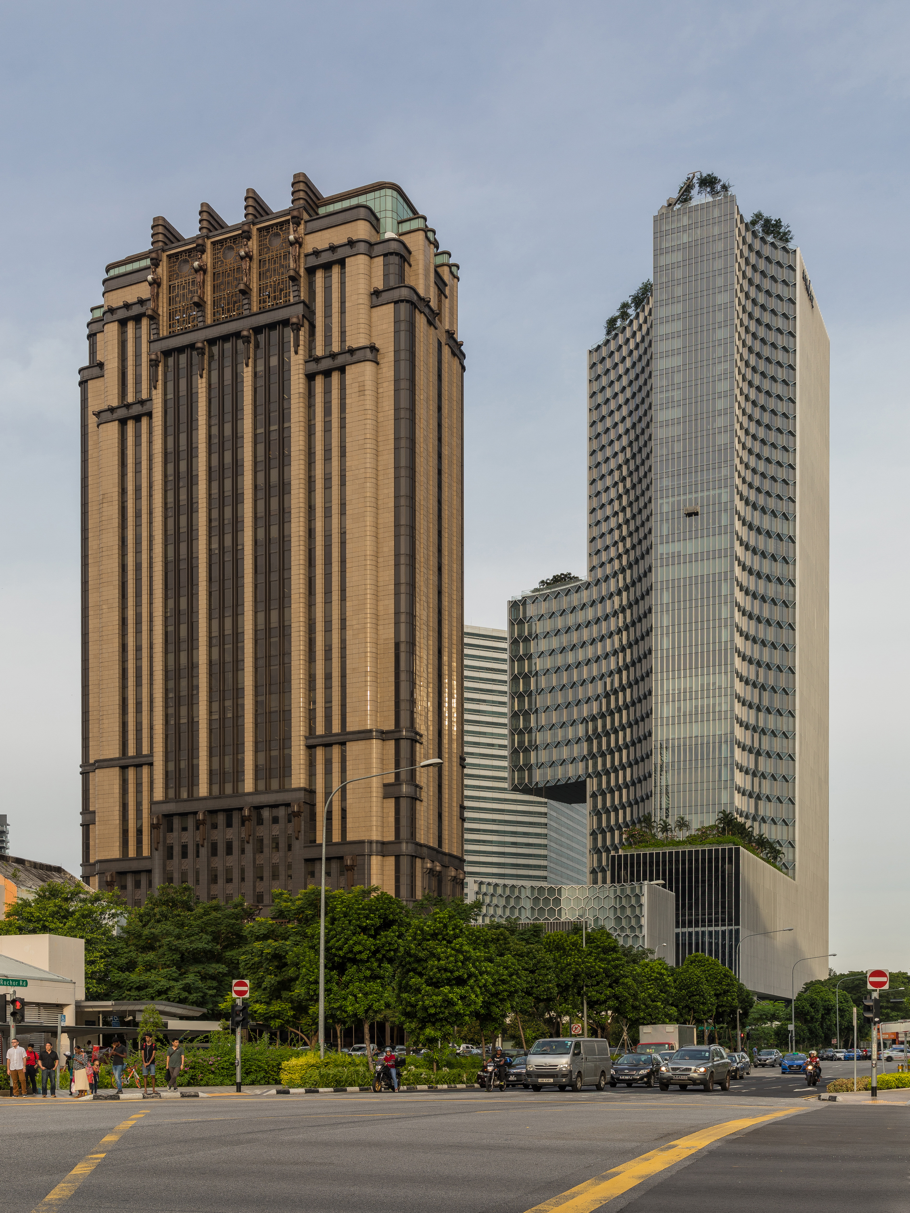 Parkview Square and Andaz Hotel buildings in Singapore, seen from Rochord Road at 5pm. Although it is a modern building, having been completed in 2002, Parkview Square is specially designed in the classic Art Deco style and is one of the most expensive office buildings in Singapore.